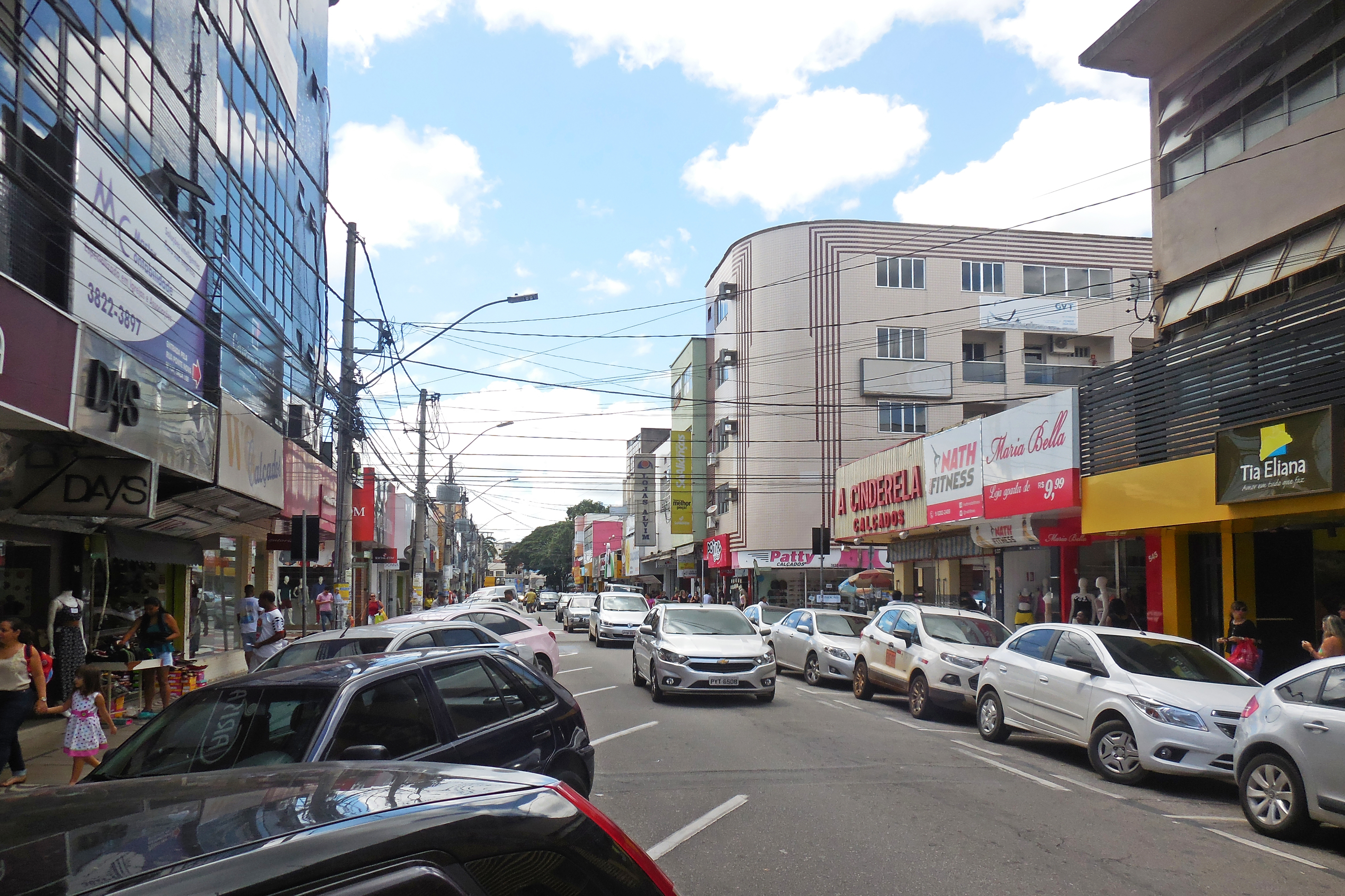 Stretch of the 28 de Abril (28 April) Avenue, in Ipatinga, Minas Gerais, Brazil.